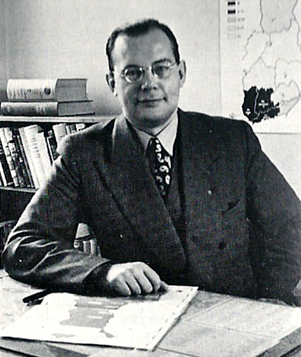 Finnish advertising executive Topi Törmä at his desk.